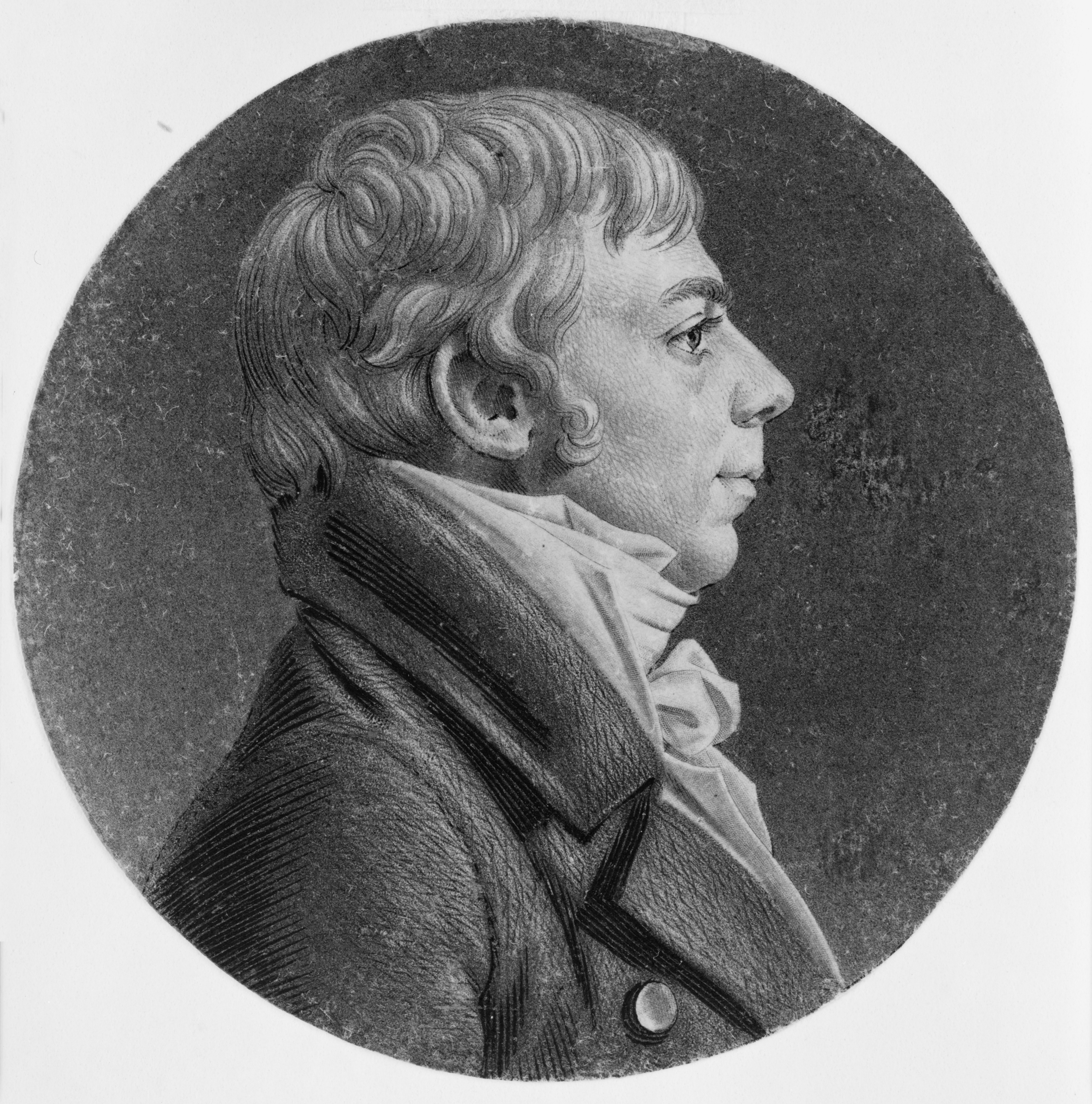 Thomas Lowndes, member of the United States House of Representatives from South Carolina.